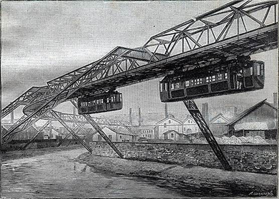 Wuppertal Schwebebahn